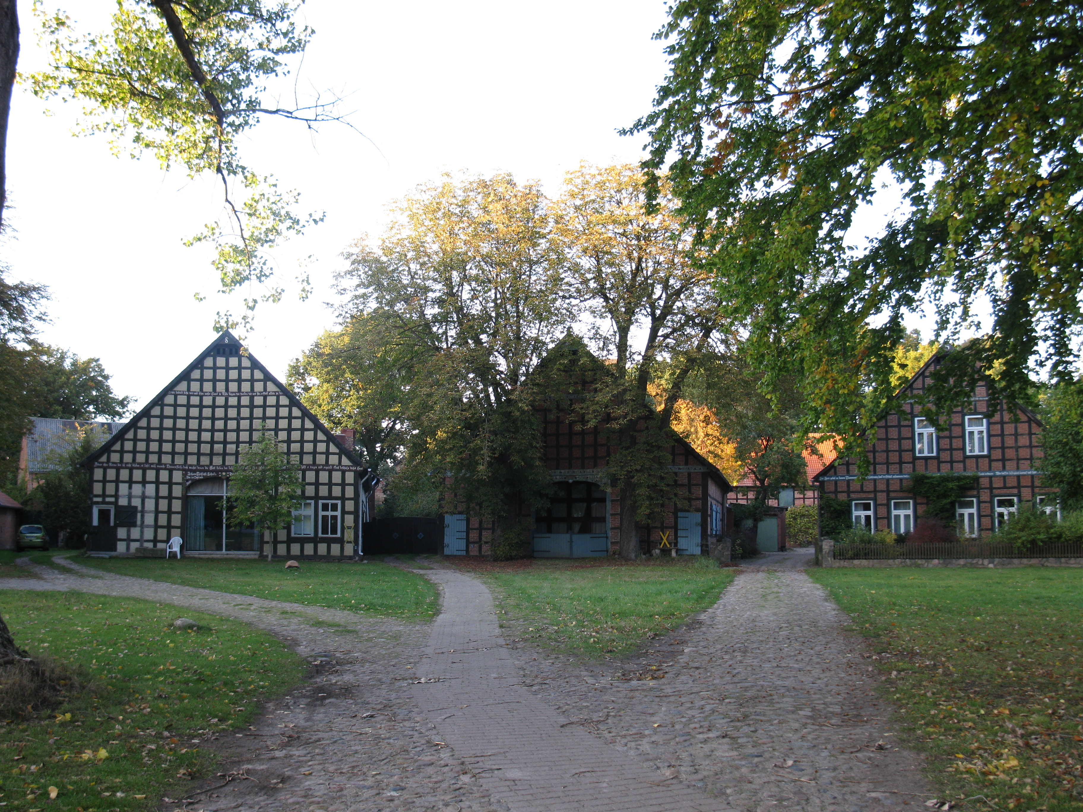 Village of Satemin, Luechow, Germany